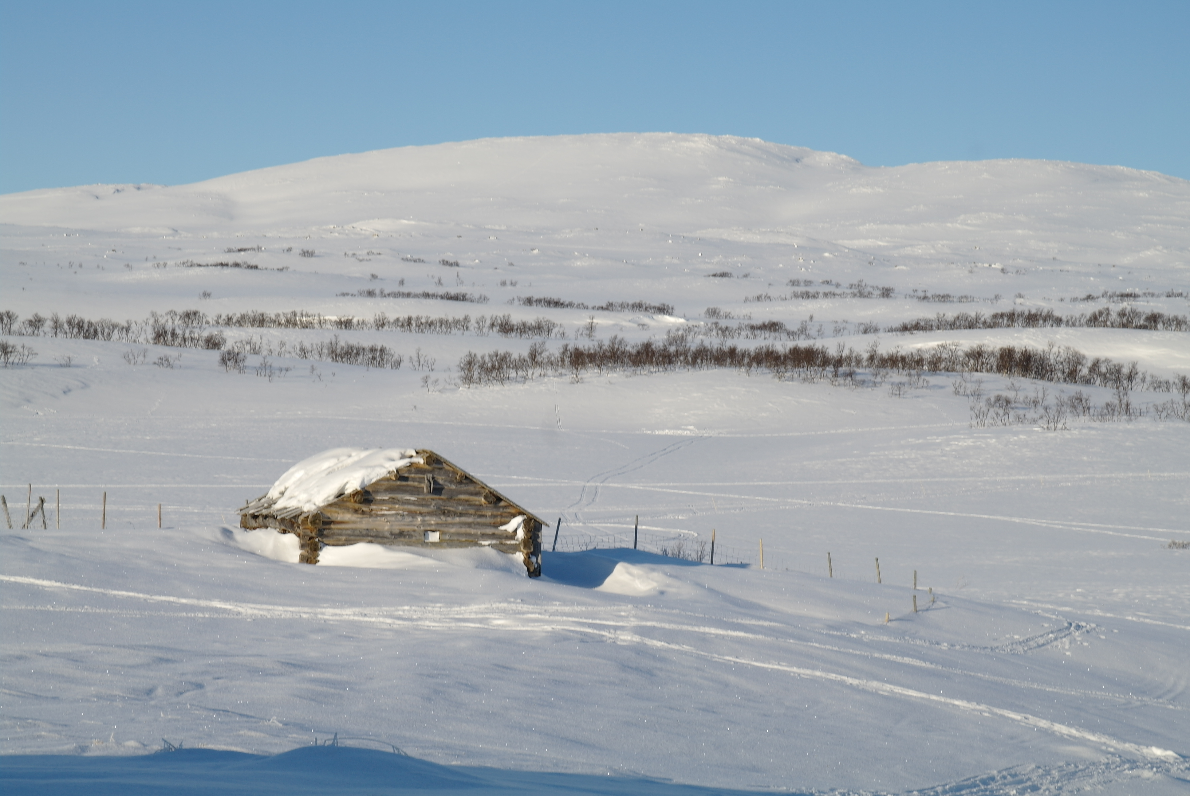 The valley of Heldalen